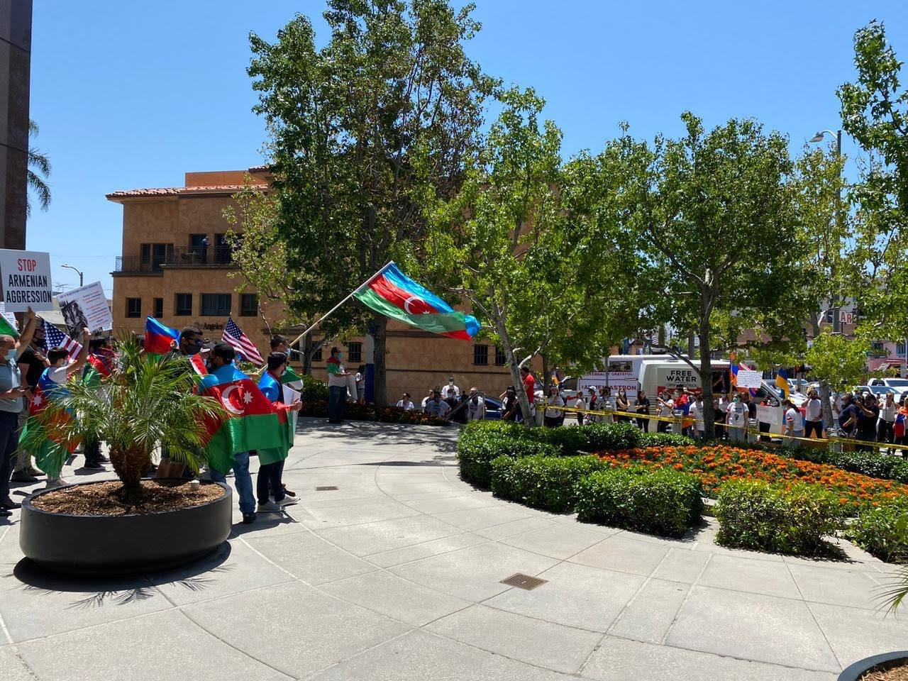 Azerbaijani demonstrators in Los Angeles protesting against Armenian agression